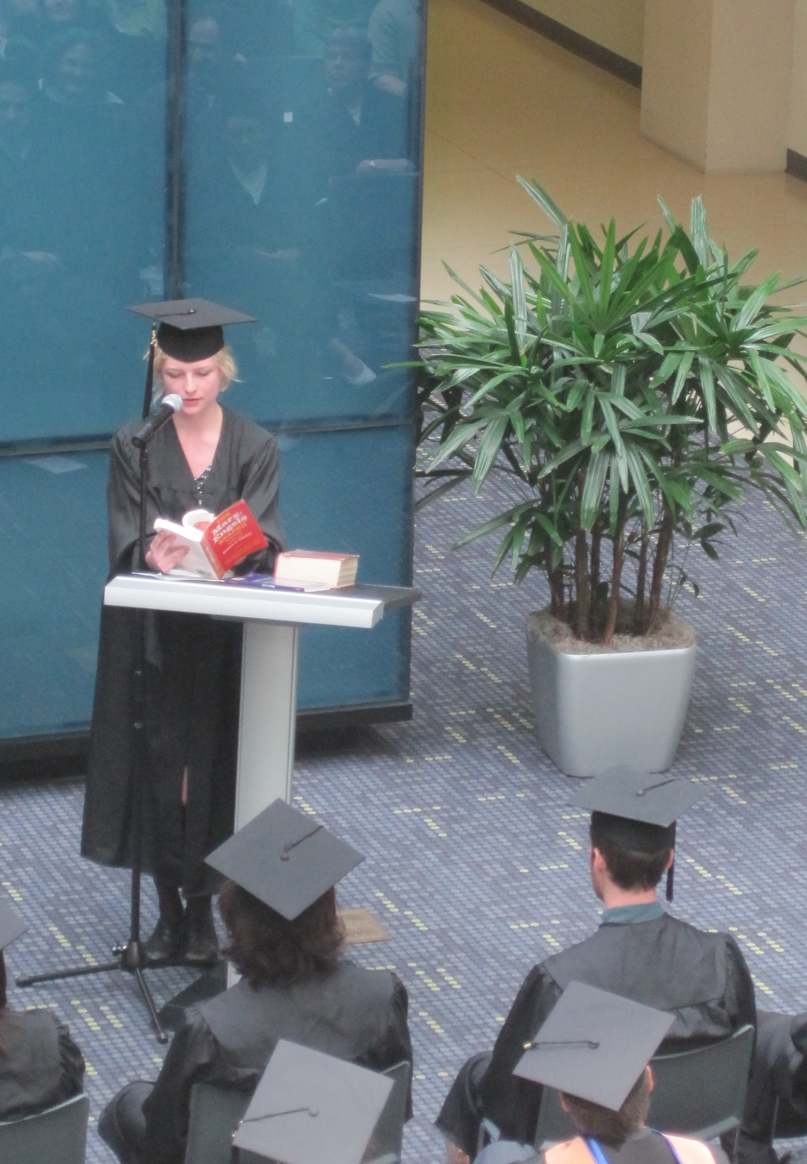 Valedictory speaker Raya Carr consults the text during speech at 2010 Shimer College commencement.